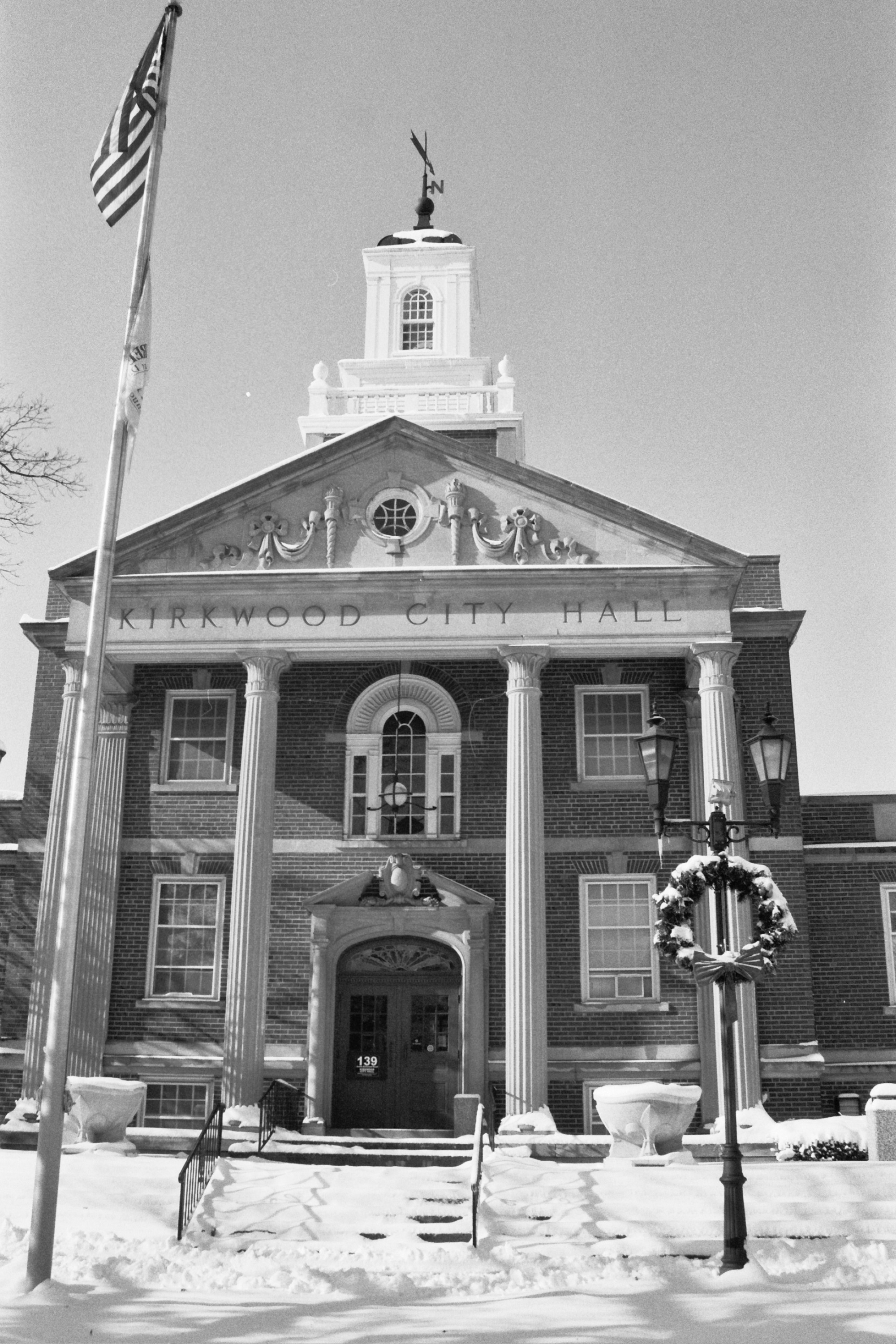 Kirkwood City Hall